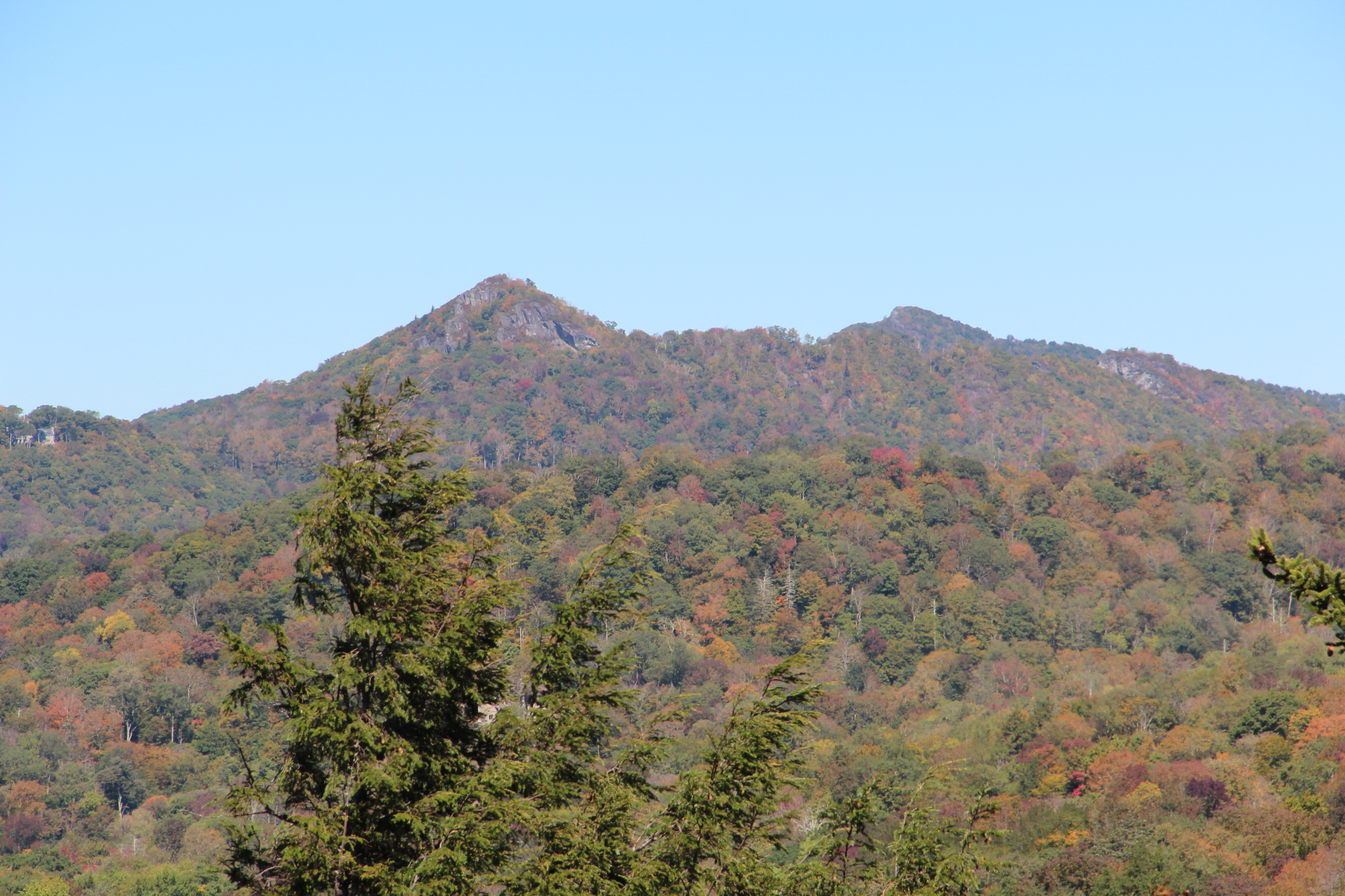 Peak Mountain and Bear's Paw from Grandfather Mountain's Half Moon Overlook